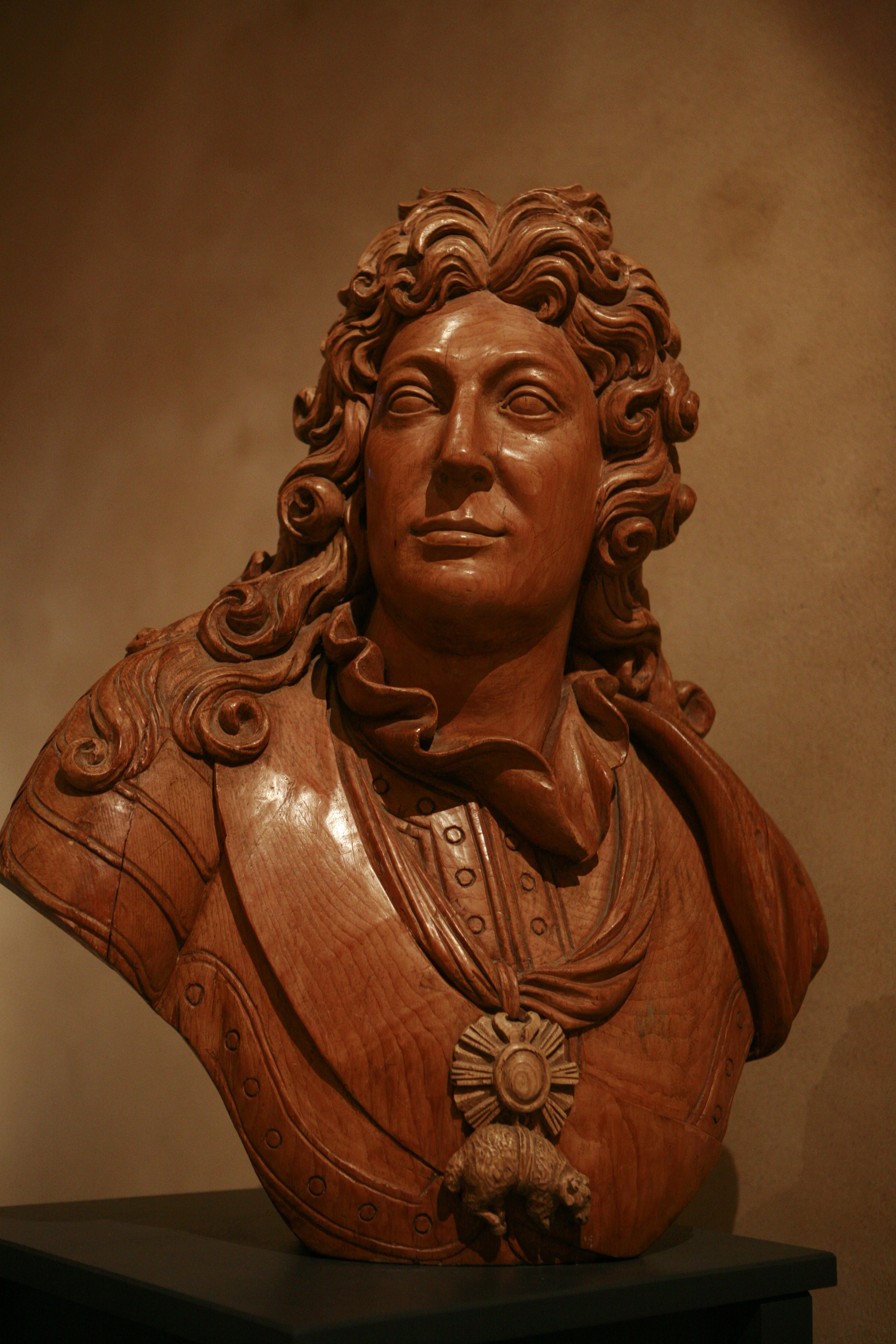 Bust of Louis-Alexandre de Bourbon, comte de Toulouse, by Yves-Étienne Collet (1761-1843) On display at Brest naval museum, accession number MnM 41 OA 103